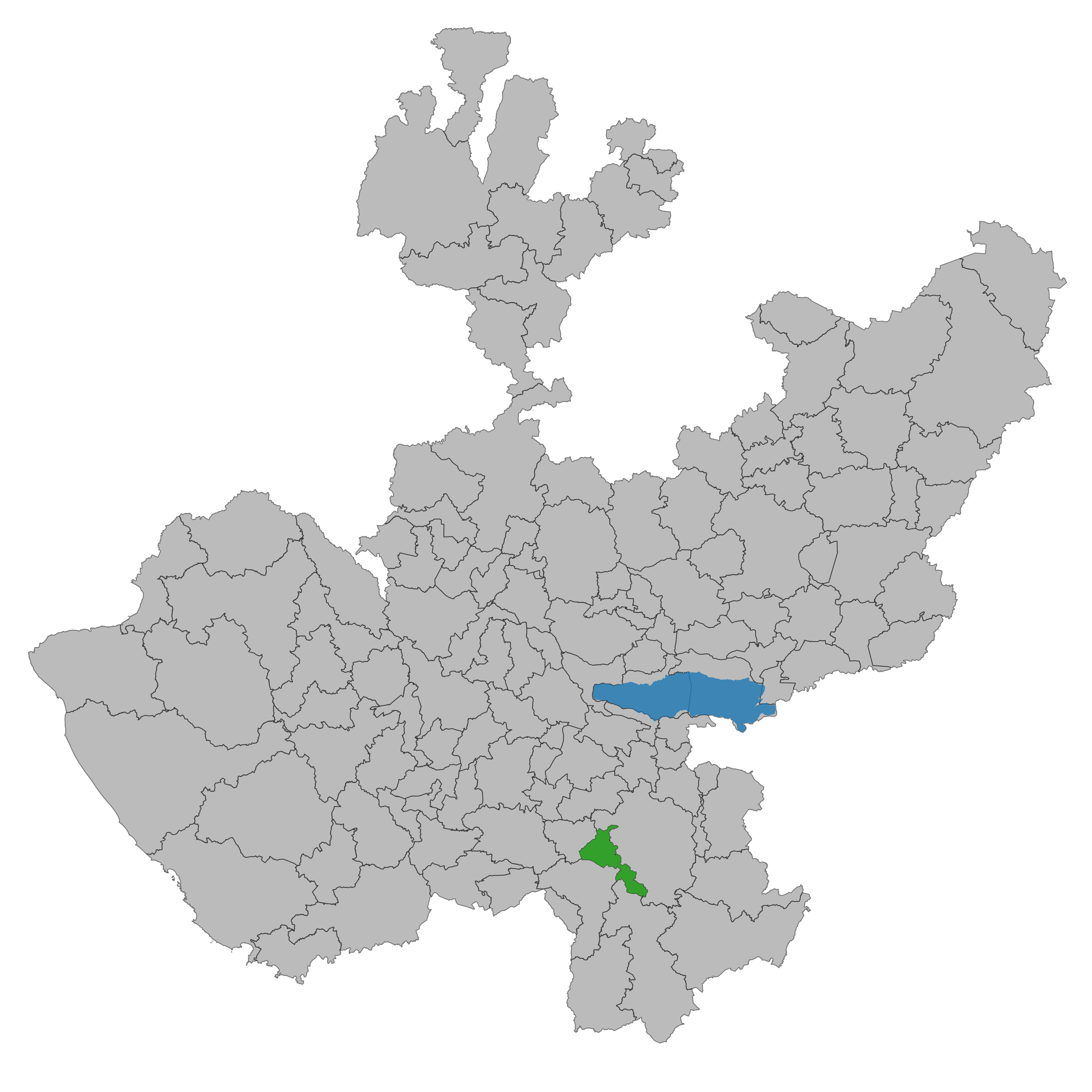 Municipality of Jalisco. Prepared with the software QGIS version 2.8.2 Wien & with information of SCINCE 2010 version 05/2013